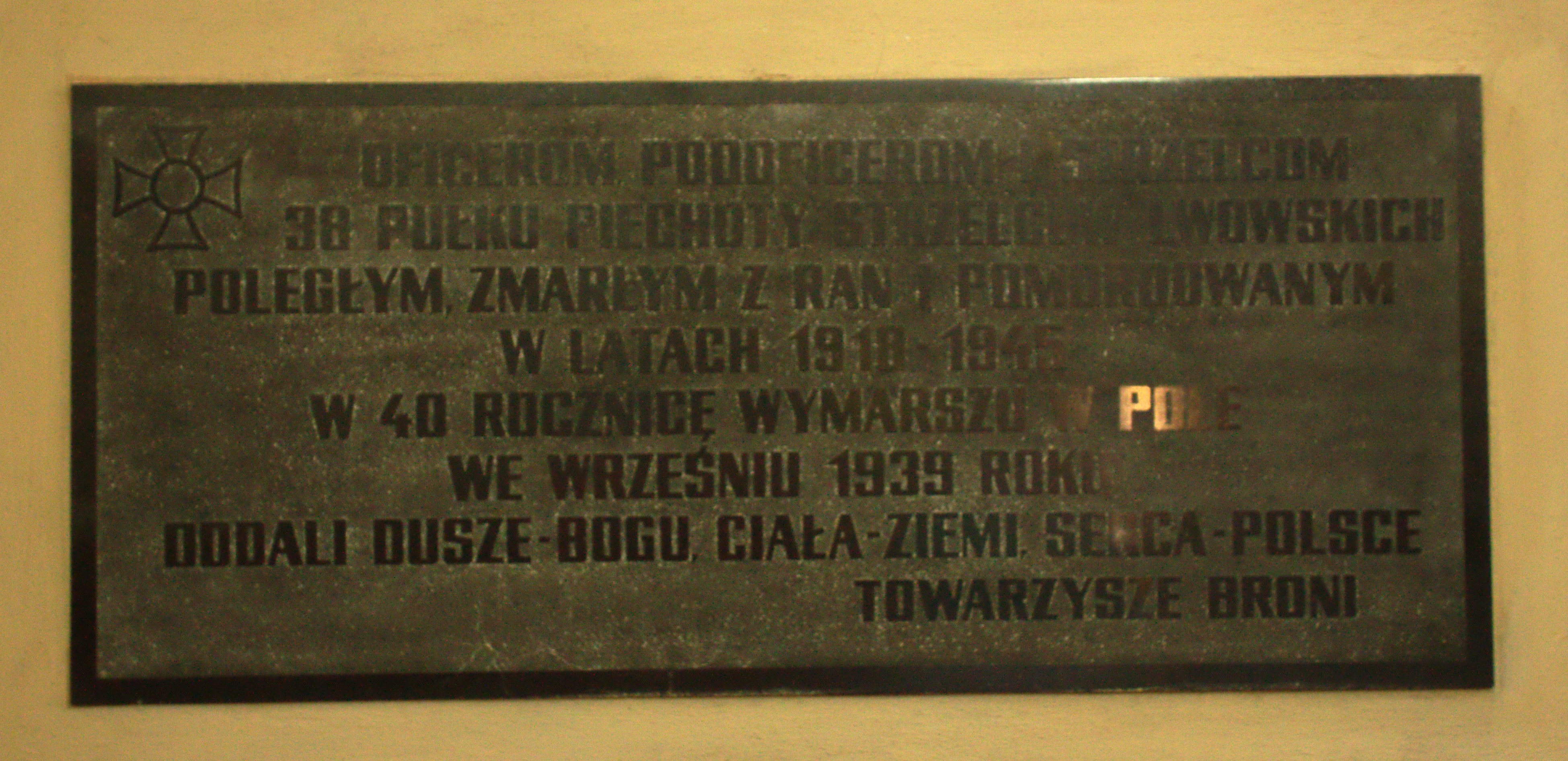 A plaque in the John the Baptist Cathedral (Roman Catholic) in Przemyśl, Poland